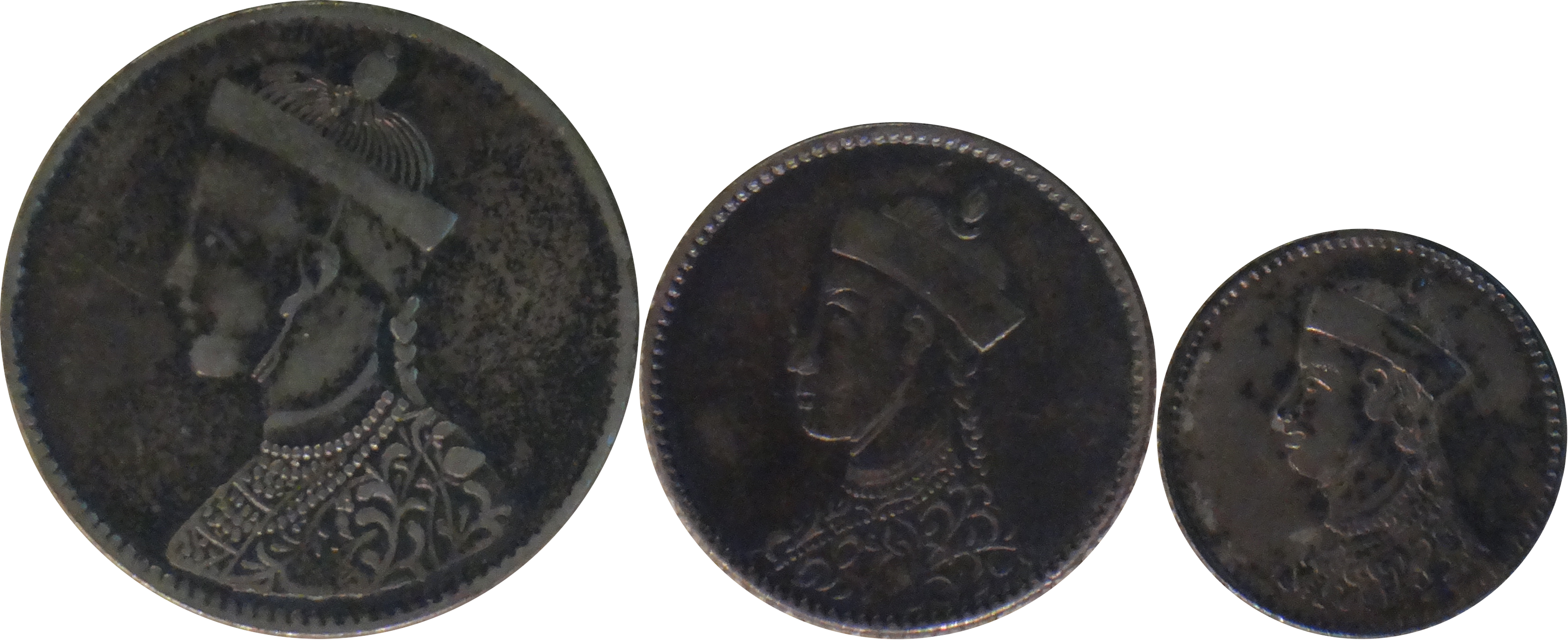 Sichuan Rupee coins of one, half and quarter rupees